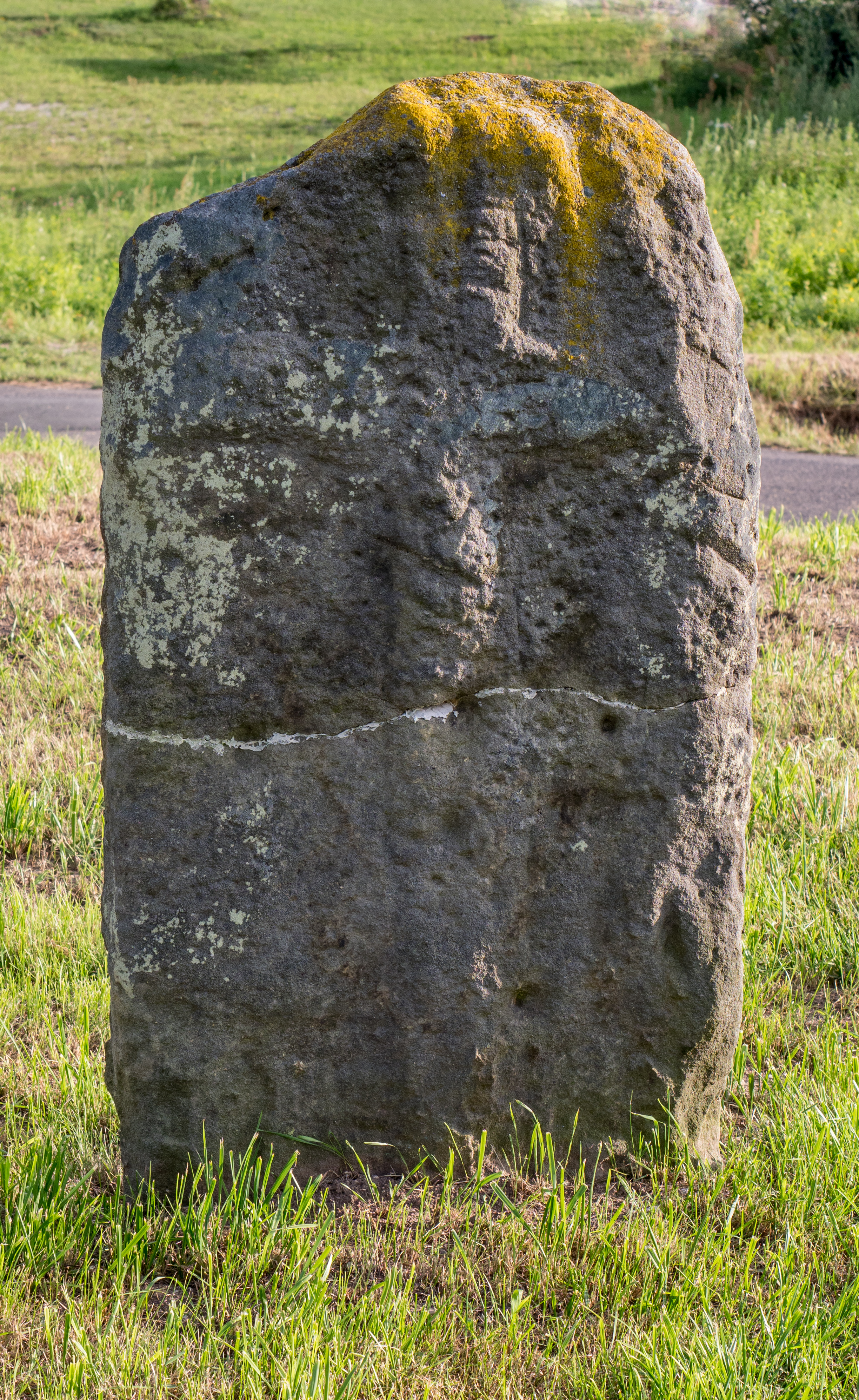 Crucifix of sandstone with a raised Latin cross. Medieval.